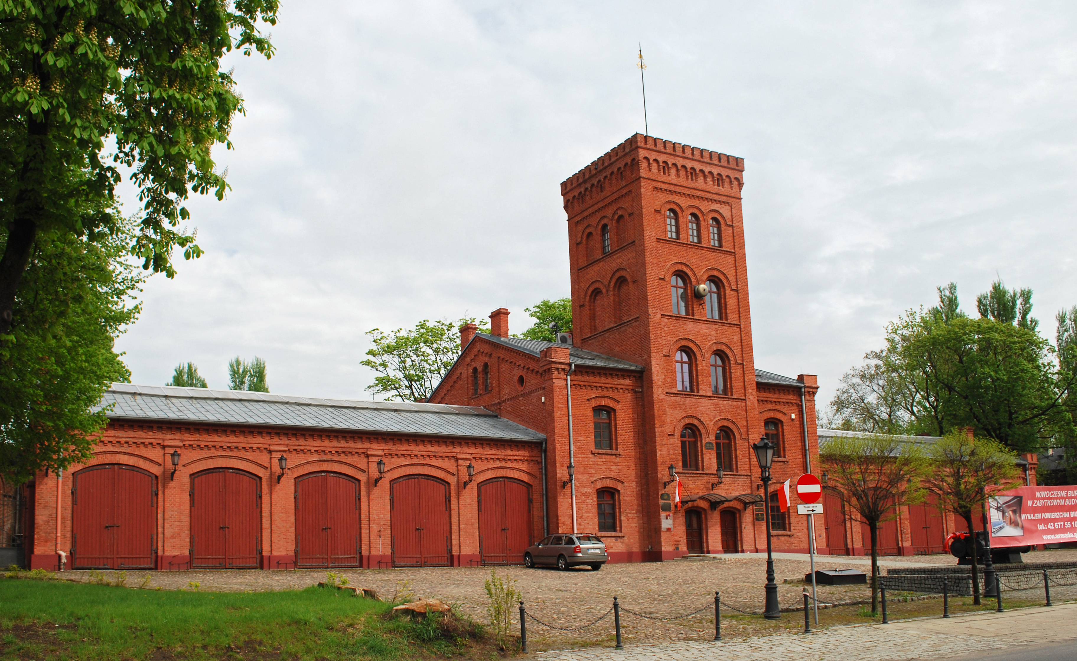 This picture was taken during the photographic wikiworkshop organized by the Association of Wikimedia Poland. All pictures of the workshop you can see in the category wikiwarsztaty 2010. Remiza na Księżym Młynie w Łodzi